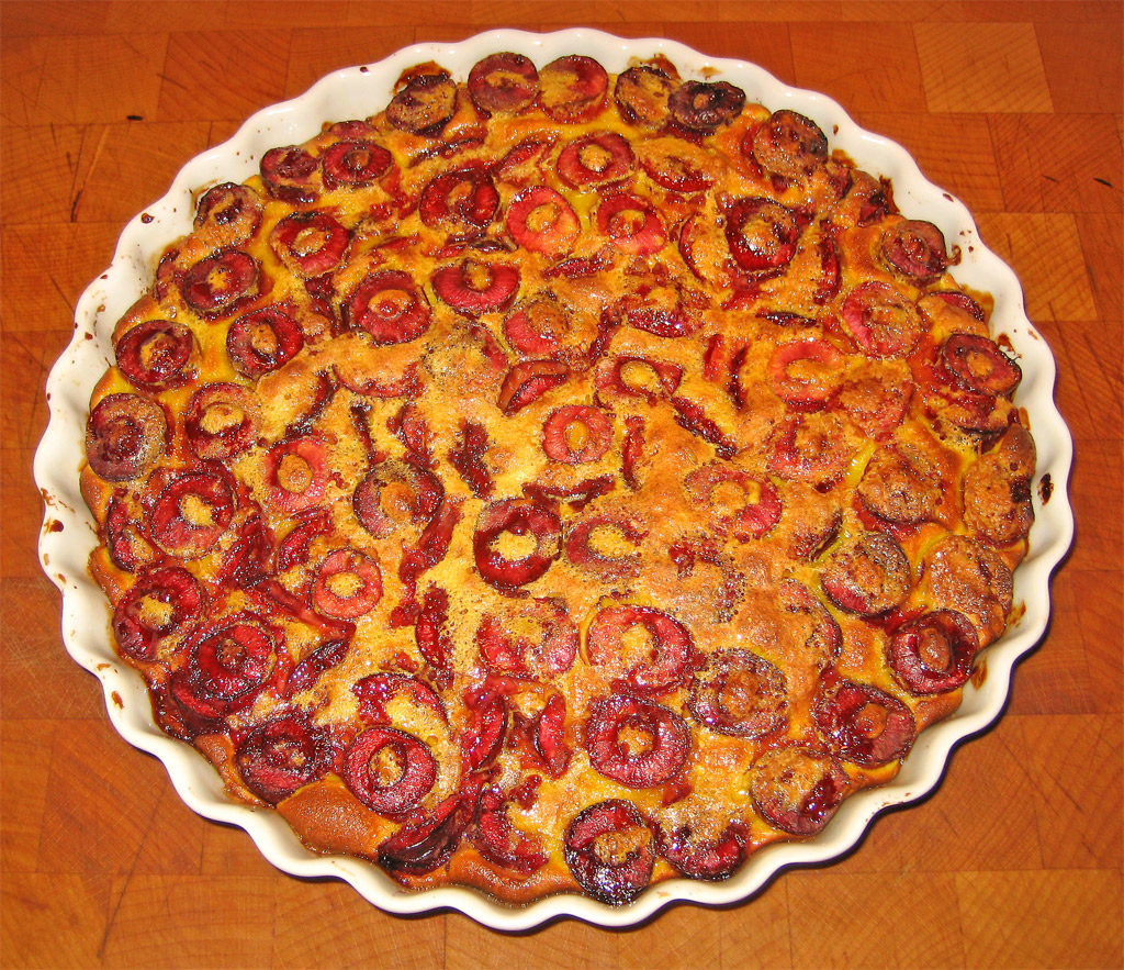 Cherry clafoutis fresh from the oven.